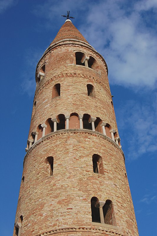 Bell tower of the city of Caorle, Italy.